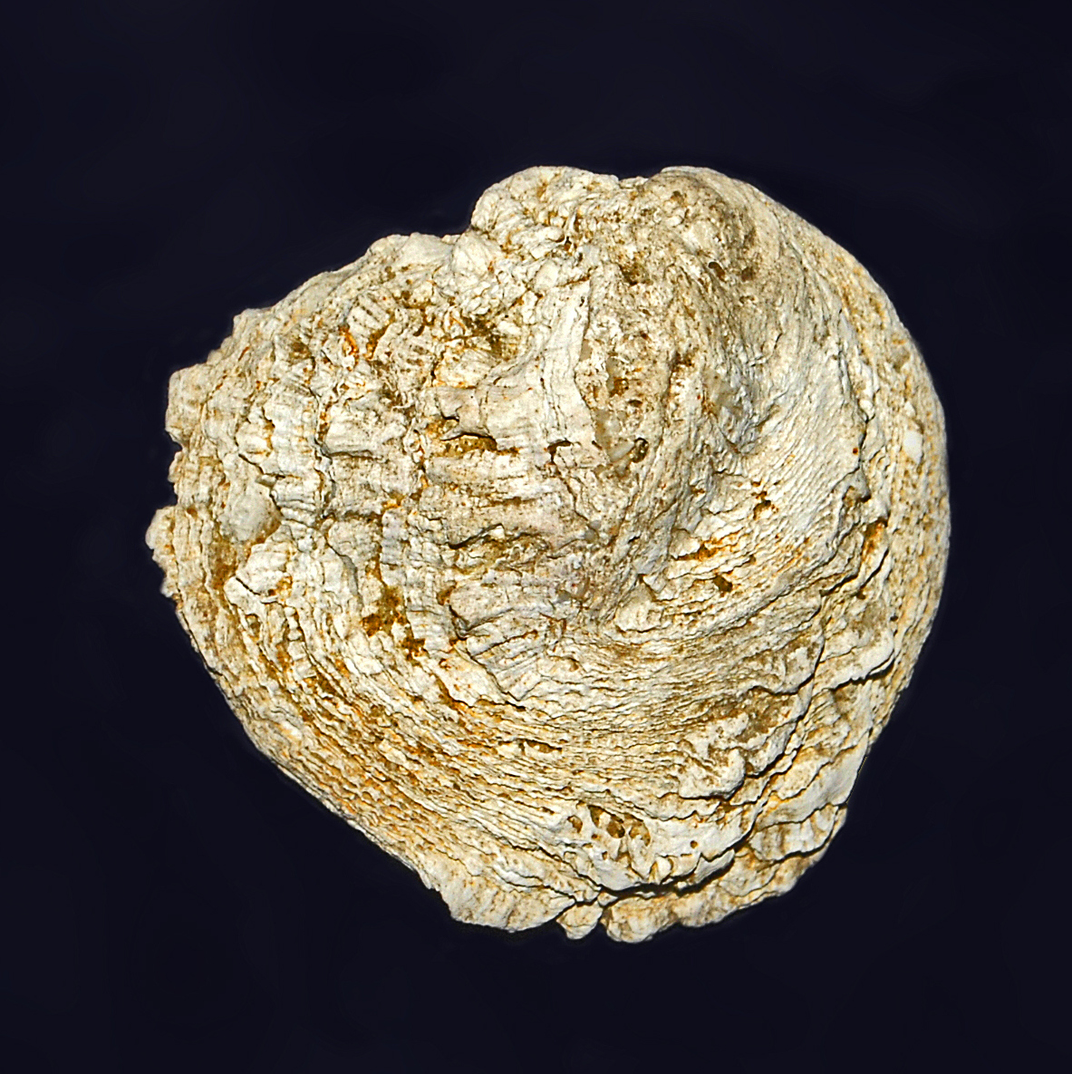 Fossil valve of Pseudochama gryphina from Pliocene of Italy, on display at the Museo Paleontologico, Asti